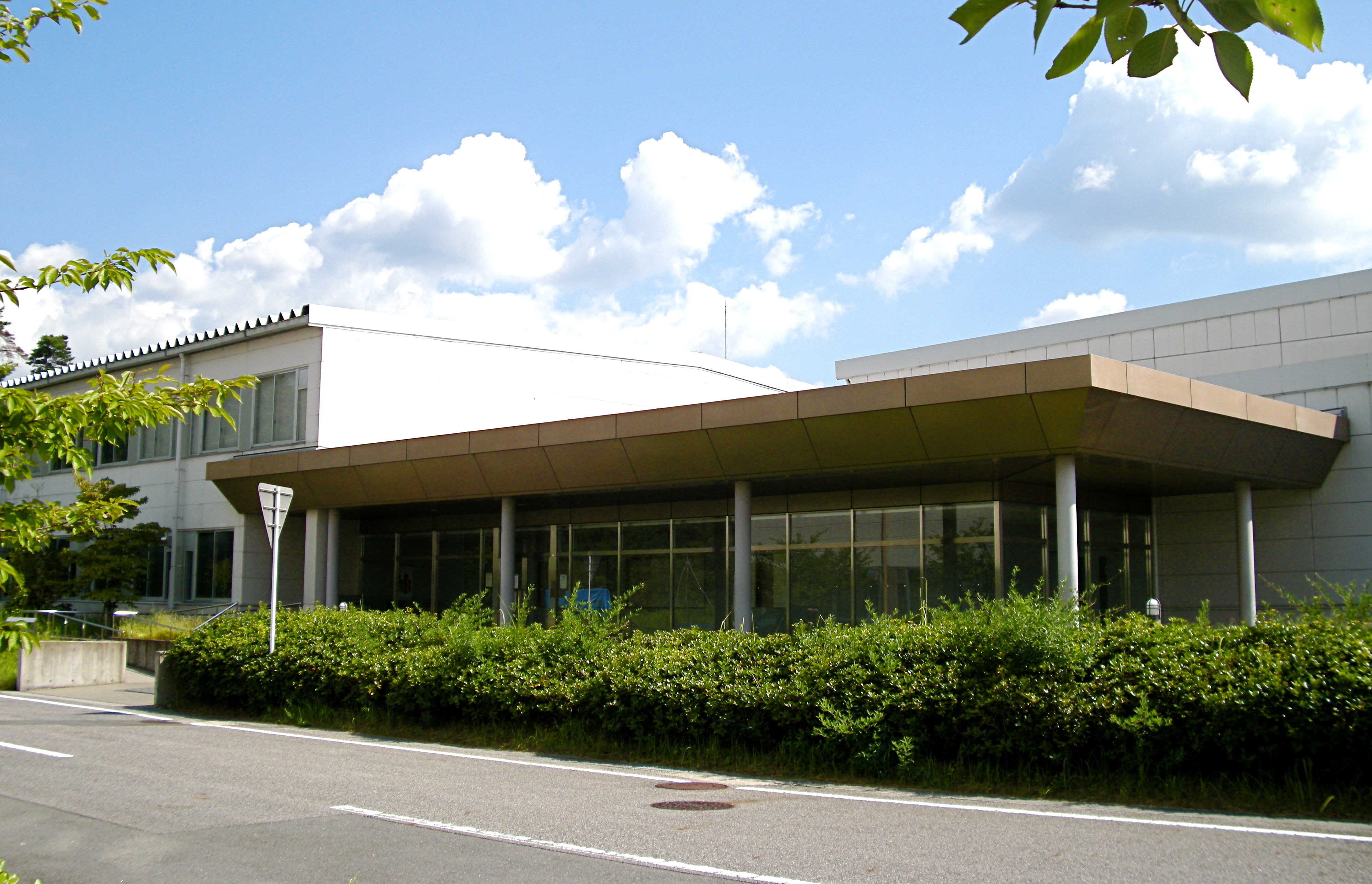 Micro System Centre (Biwako Kusatsu Campus, Ritsumeikan University, Japan)